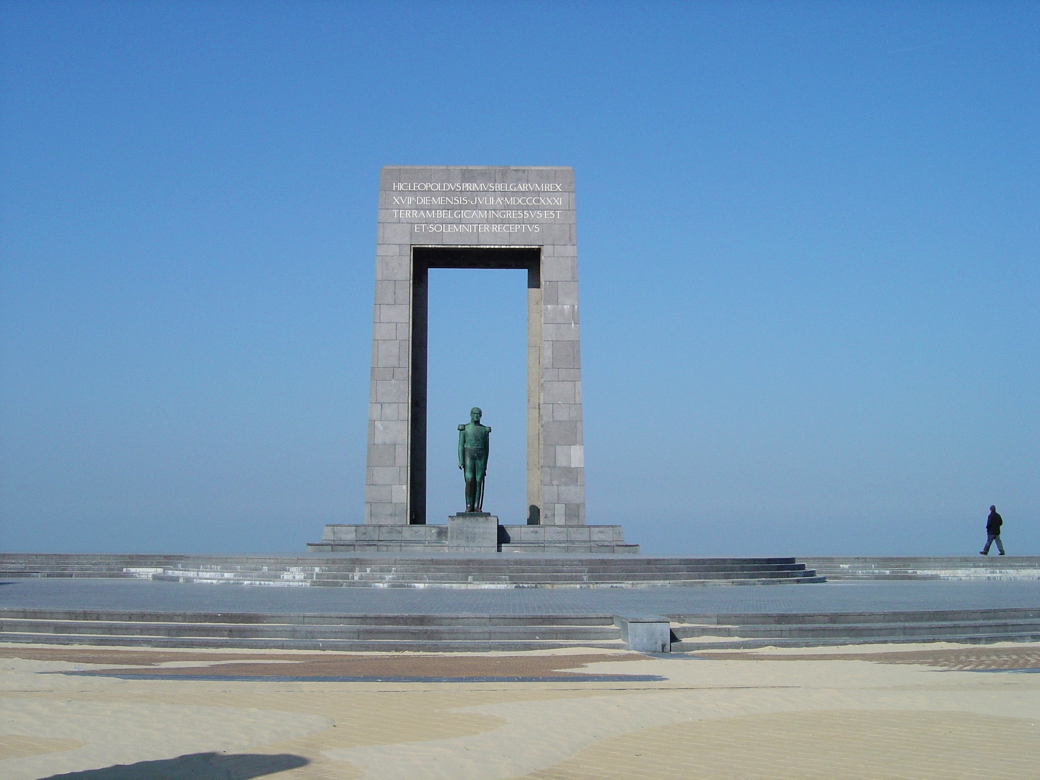 statue of Leopold I king of Belgium, De Panne, Belgium